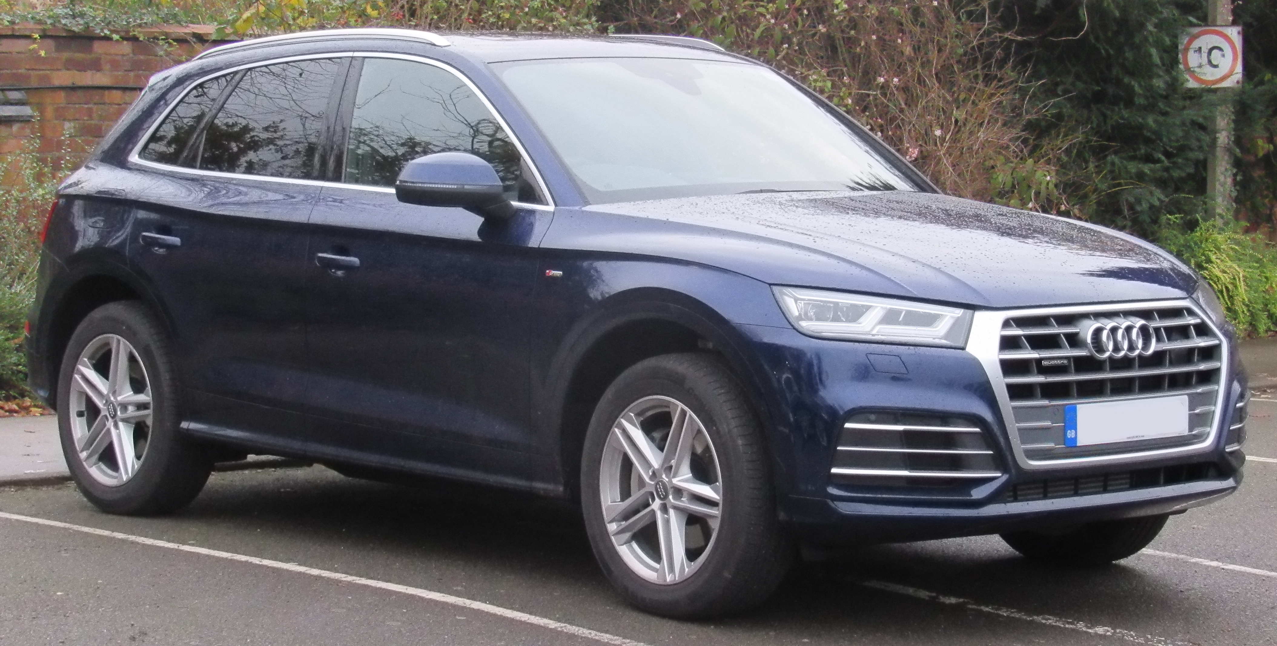 2017 Audi Q5 S Line TFSi Quattro 2.0 Front Taken in Leamington Spa